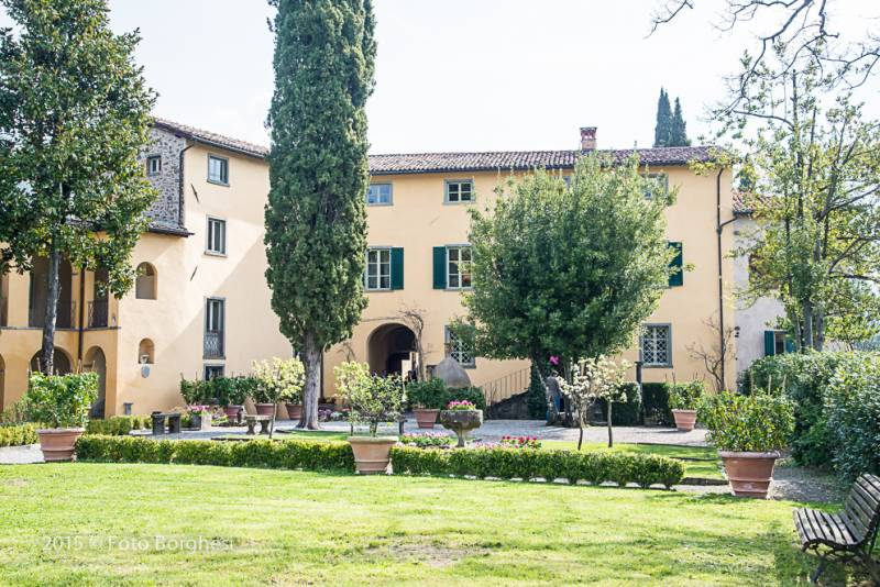 facciata e giardino casa Pascoli Barga